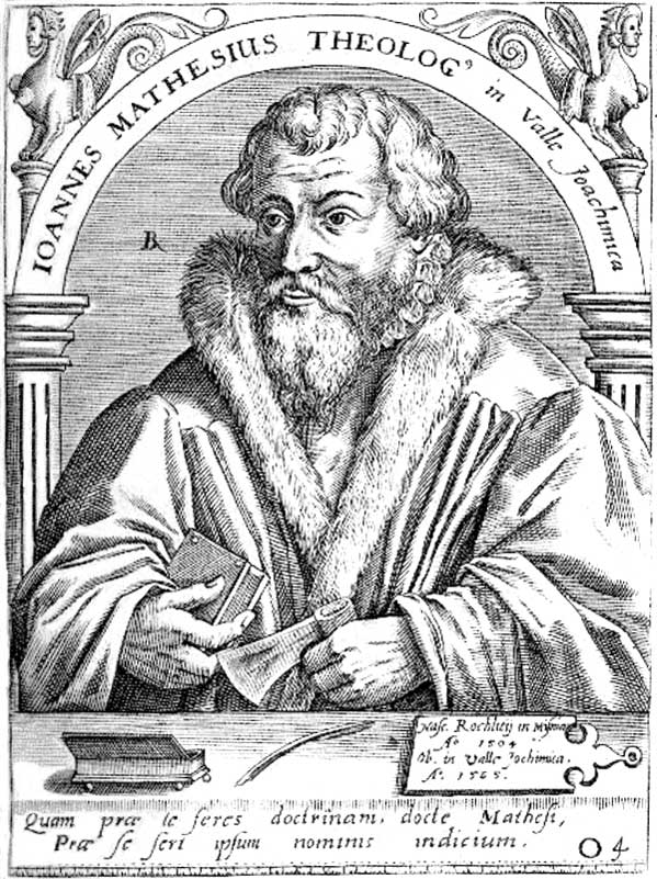 Johannes Mathesius (1504-1565); Theologe